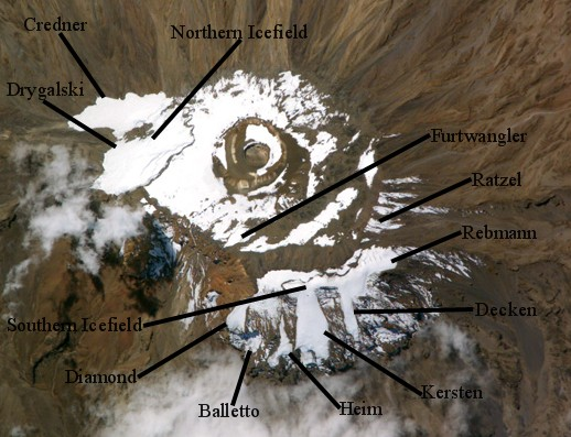 Image altered to locate glaciers on top of Mount Kilimanjaro. NASA image from 2004. Most areas that are not identified are either small remnant glaciers, or snowfields. In the northern icefields, both Credner and Drygalski glaciers were once outflow glaciers of the icefield but may longer exist, per se. Much information to help locate which glacier is which was taken from the USGS report and a 1980 NASA image on page G61 of this report